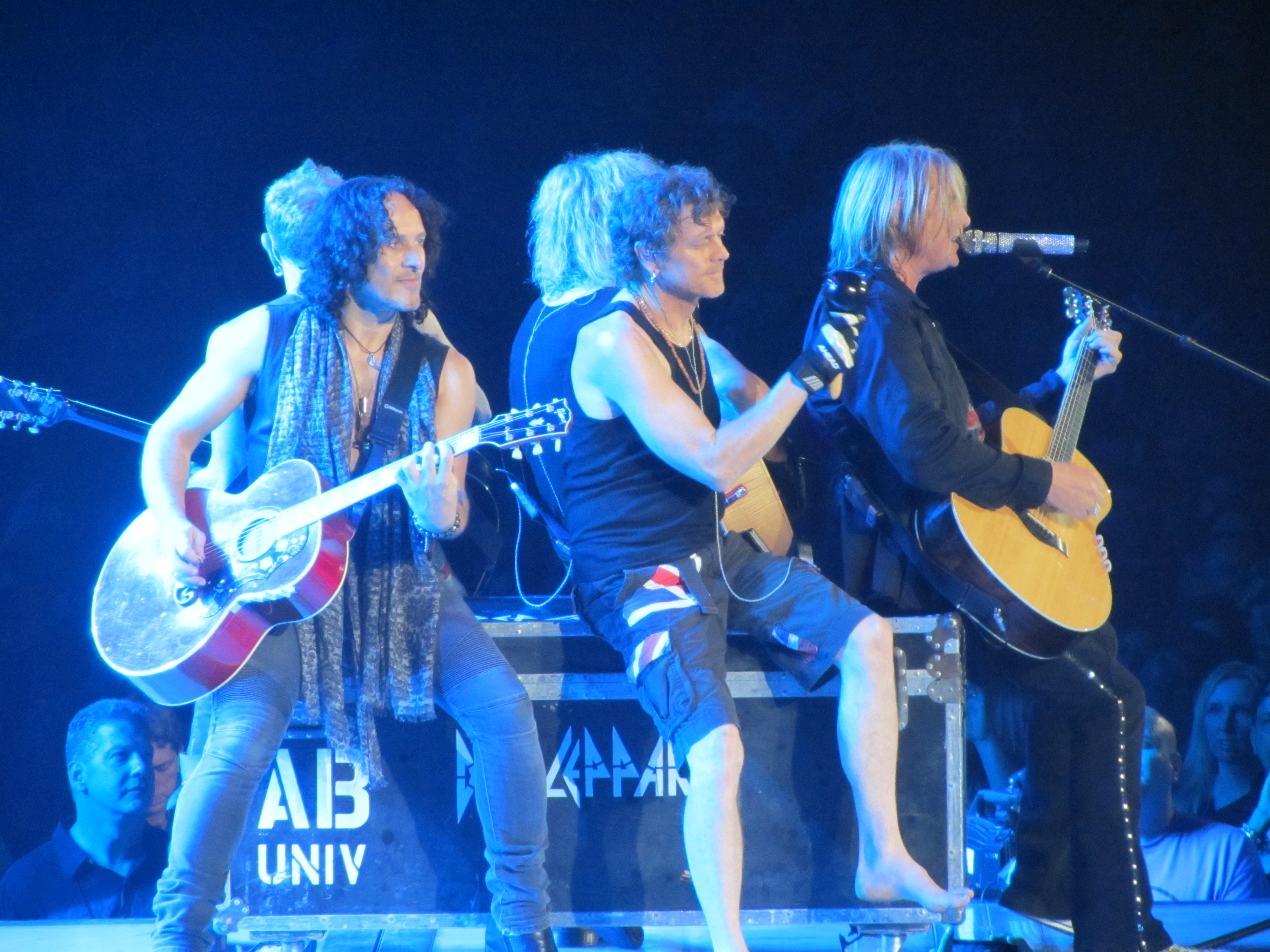 Def Leppard playing an acoustic set at the Allstate Arena in Rosemont, IL on 7/19/12.